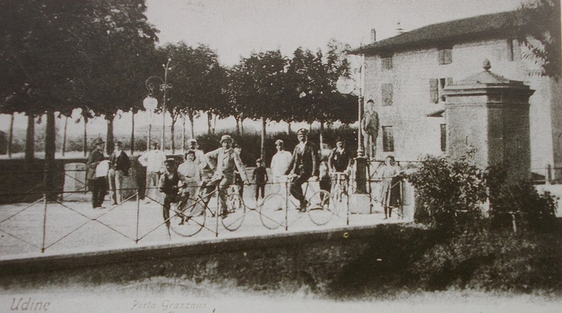 Porta grazzano esterna 1900